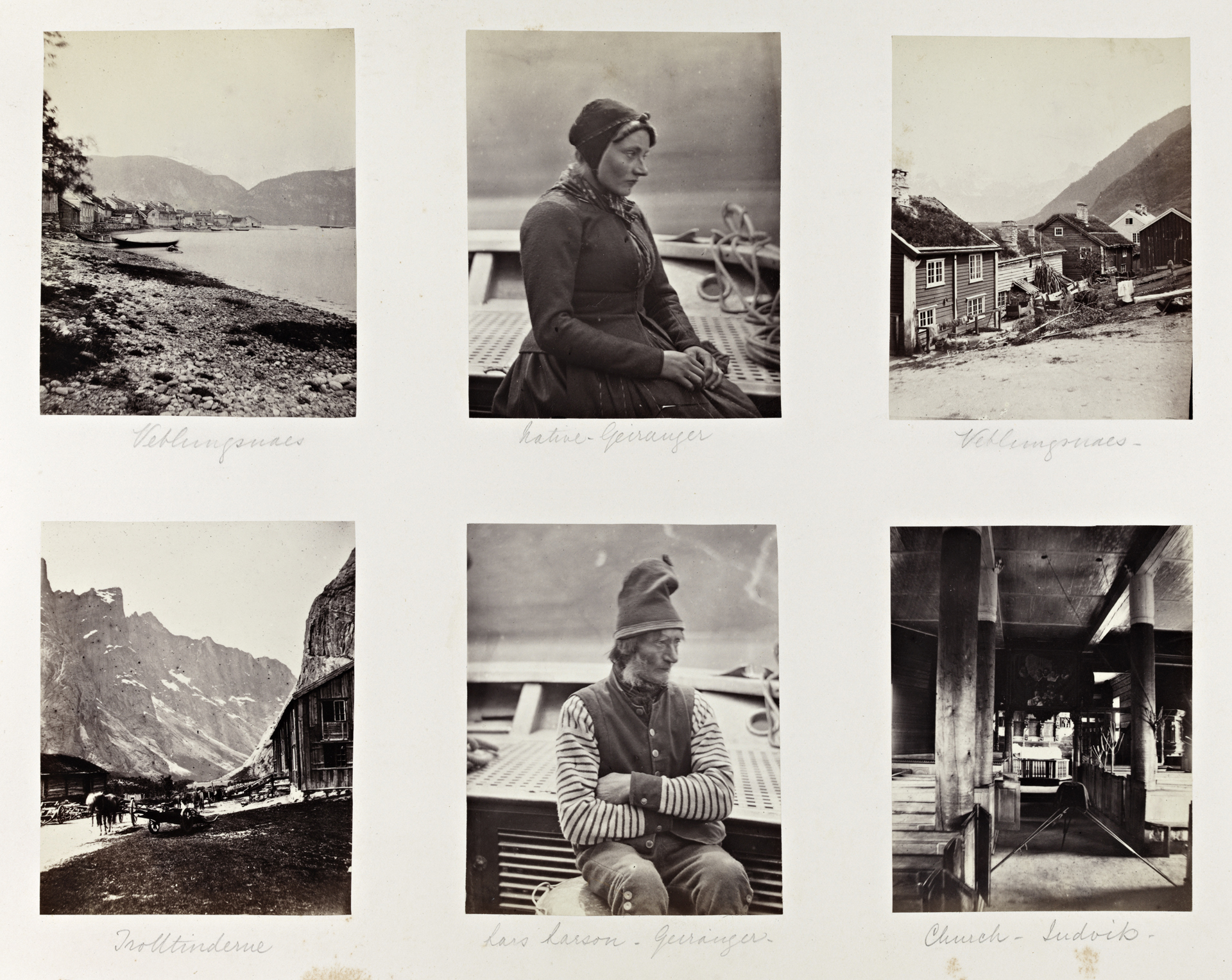 Tittel / Title: s. 40 Motiv / Motif: Albuminkopi. Dato / Date: 1869 Fotograf / Photographer: Edward Backhouse Mounsey (1840-1911) Sted / Place: Møre og Romsdal Eier / Owner Institution: Nasjonalbiblioteket / National Library of Norway Lenke / Link: Bildesignatur / Image Number: bldsa_Alb_BH043